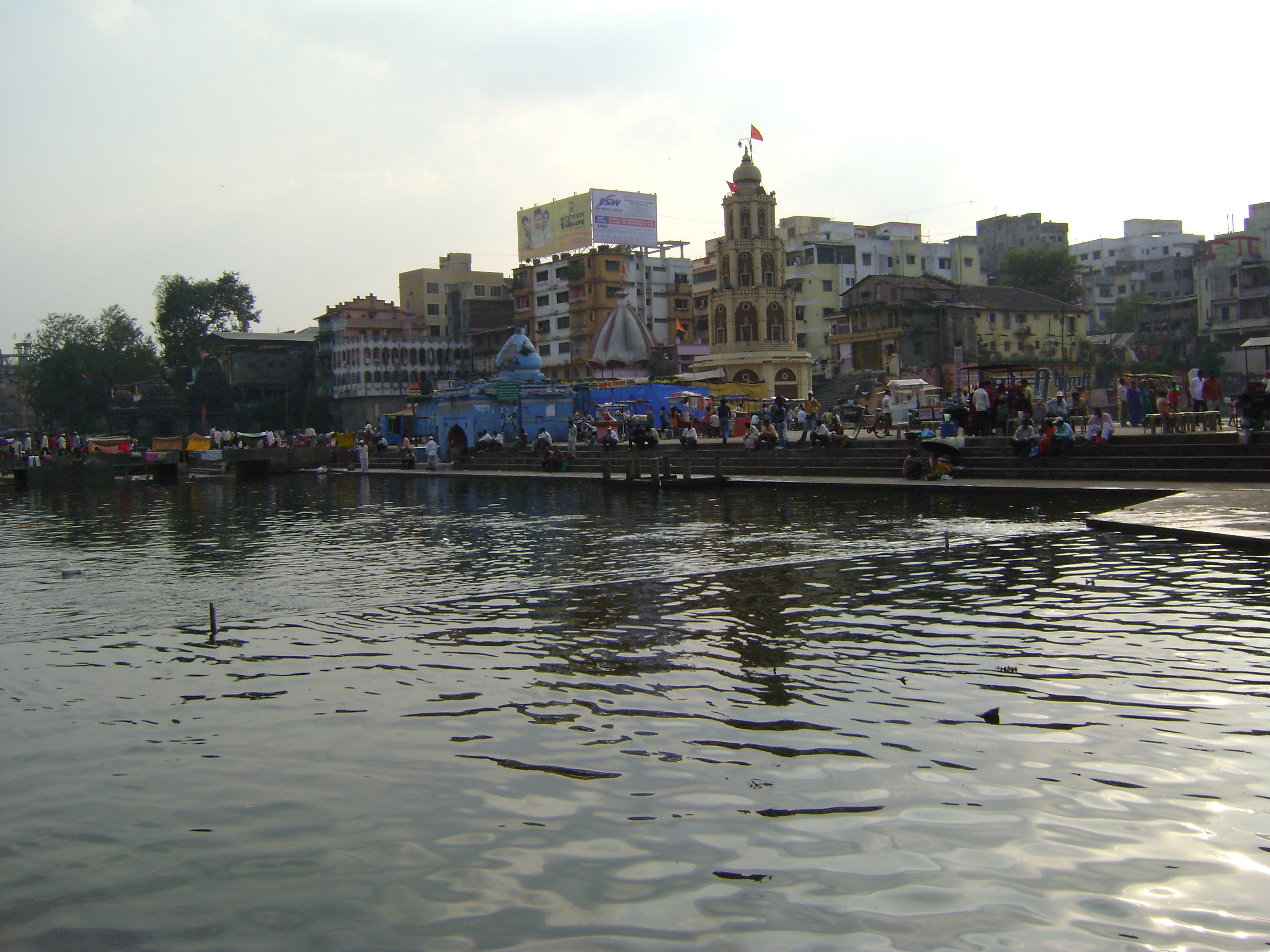 Ram Ghat, one of the various ghats of the River Godavari, Nashik, Maharashtra